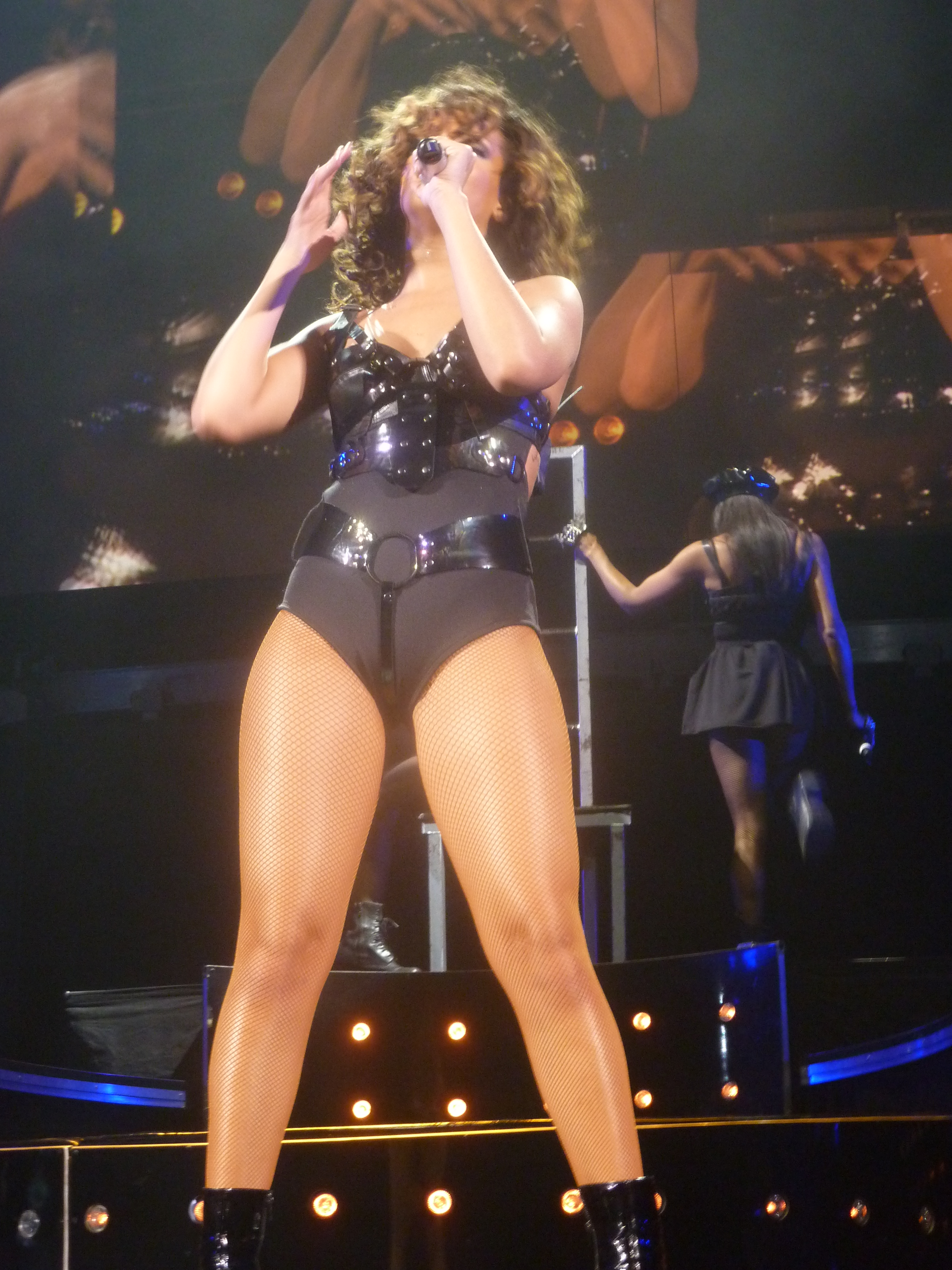 Live In Paris - Paris Bercy 2011